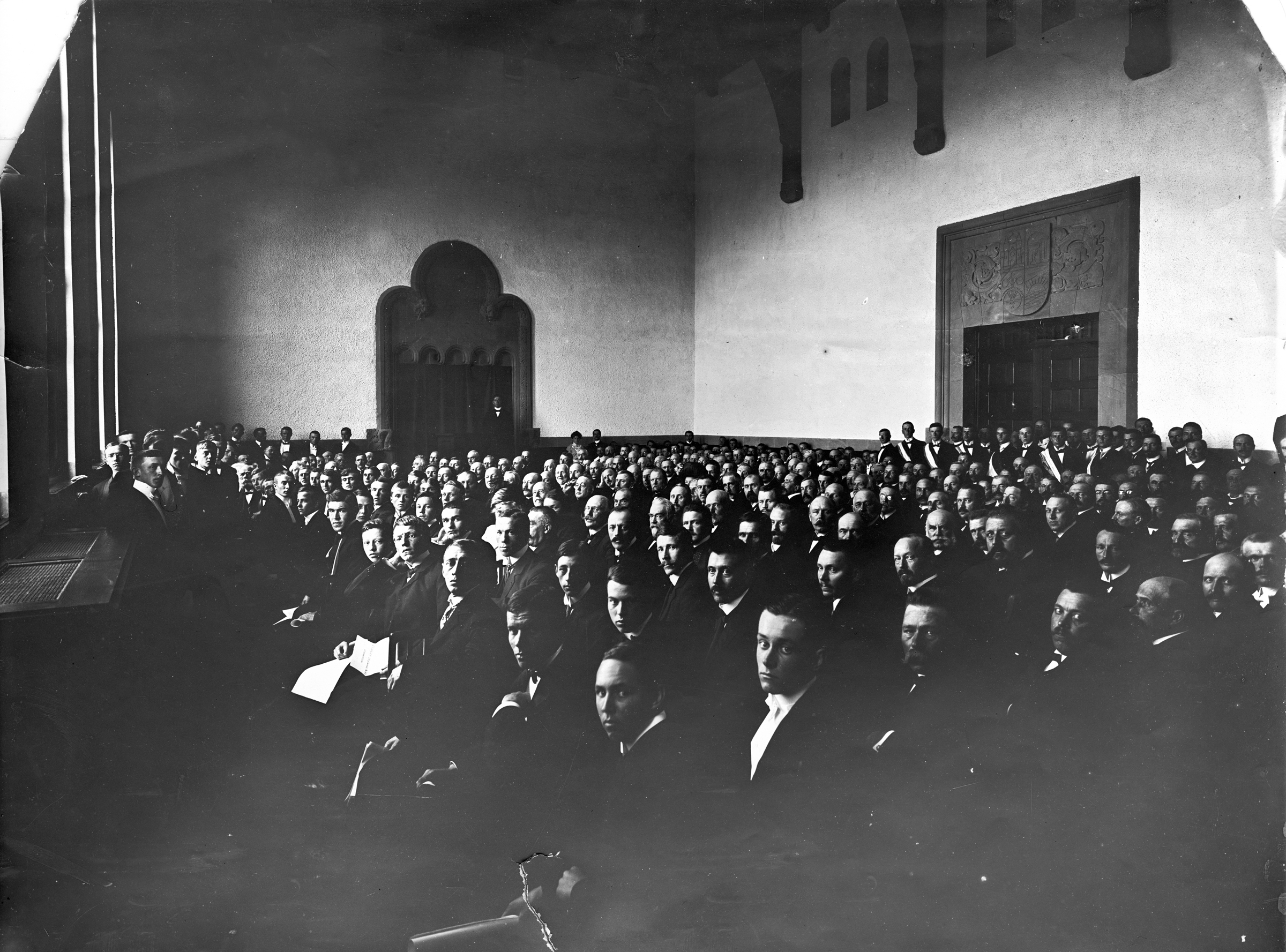 Matriculation of the first NTH students, Trondheim, 1910.